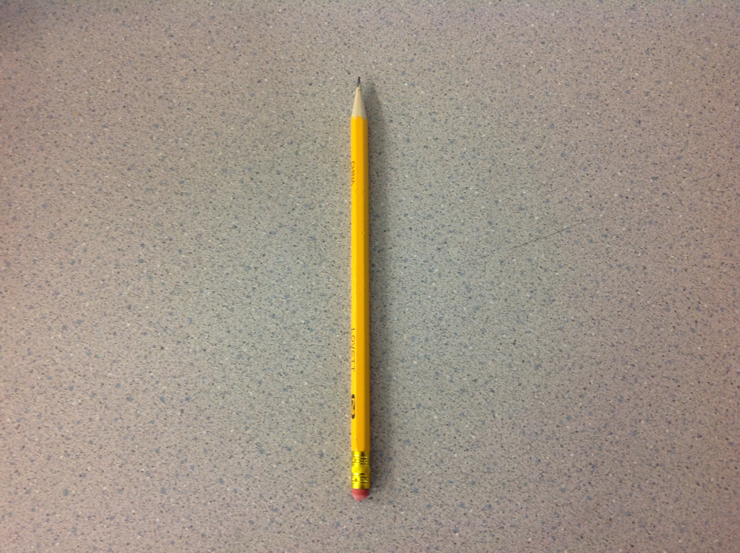 pencil on a table